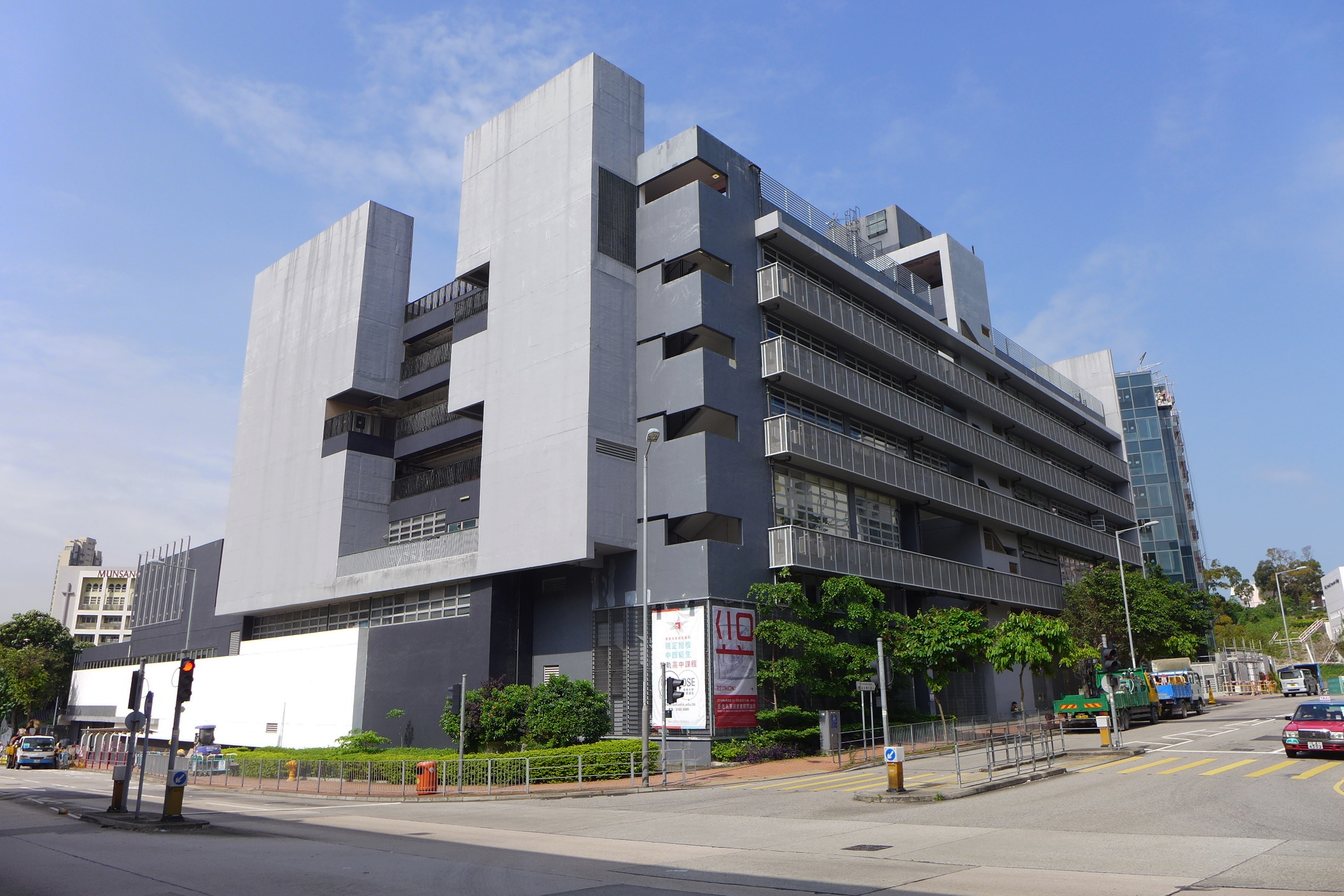 HKICC Lee Shau Kee School of Creativity Campus